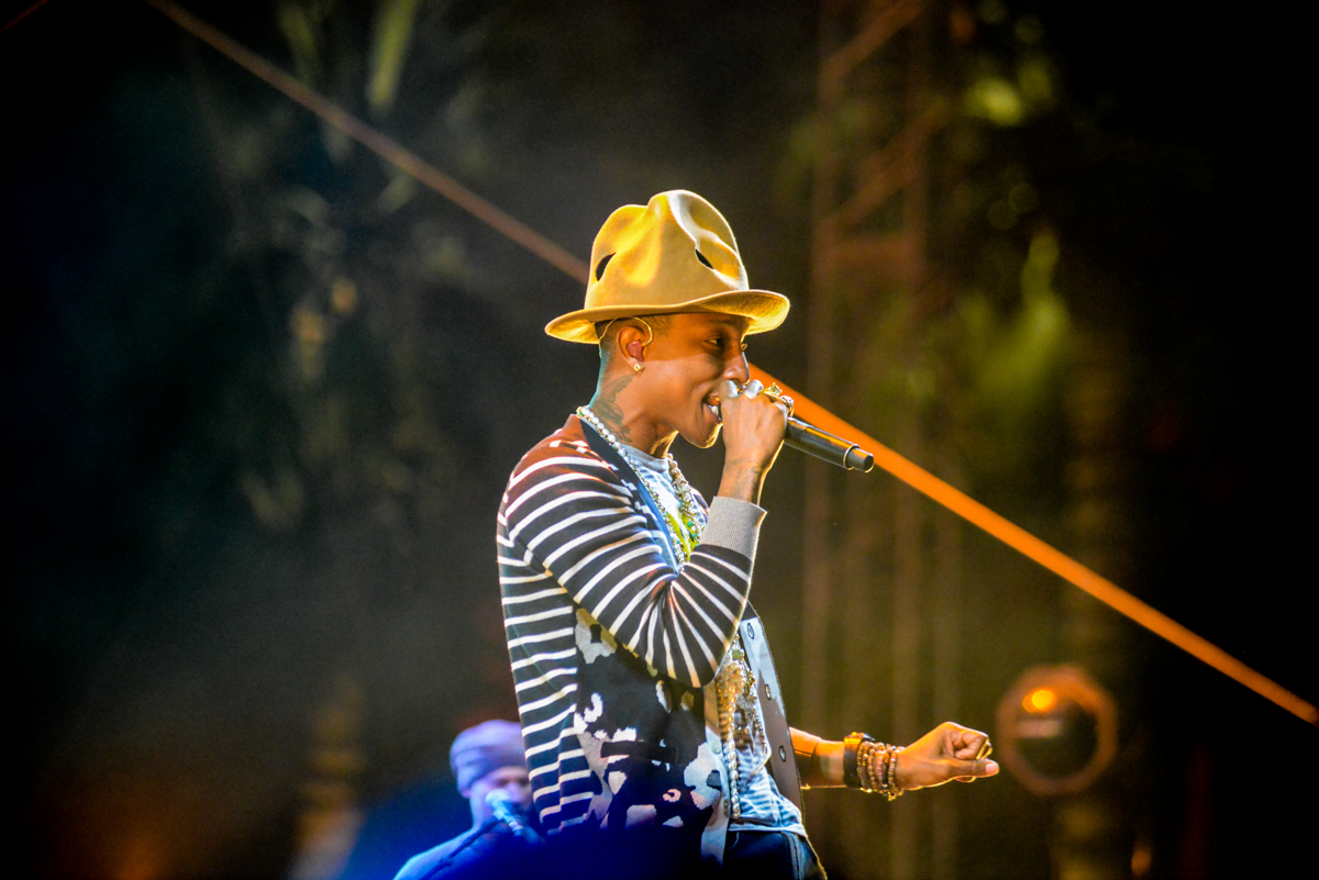 Pharrell Williams at the Coachella Festival 2014. Shot by Shawn Ahmed